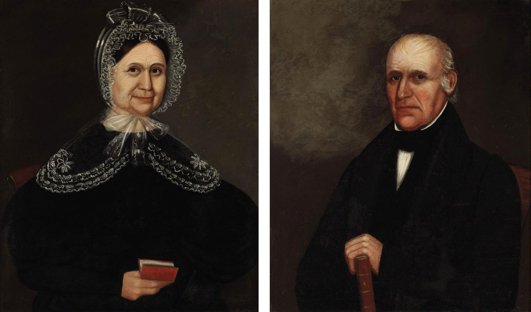 Deacon Elisha Holbrook and Sarah Thayer Holbrook. Elisha Holbrook (1775-1865) inherited the Braintree home of his father, Colonel John Holbrook (1745-1802) (maried to Anna Wild Holbrook). He lived there all his life. Elisha was deacon of the old East Randolph church from 1819 to 1856, and deacon of the Winthrop Church from 1856 to 1865. He wed Sarah (1776-1849, daughter of Isaac Thayer of Braintree). There children were: John (1797-1876), Elisha Niles (1800-1872), and Caleb S. (1802-1874). The town of Holbrook, Massachusetts was named for Elisha Niles Holbrook who provided the town with the funds for the town hall and library. oil on canvas 30 x 25 in. American School